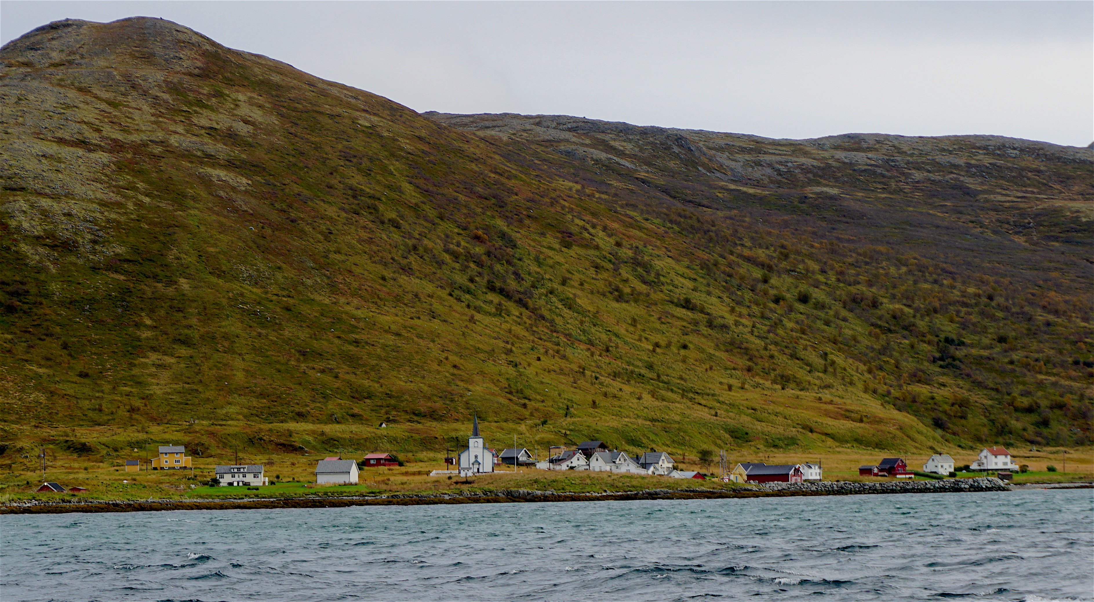 Helgøy church was used by the small remote island community of Helgøy, which is only accessible by boat. The church building itself was first built in Helgeland in 1741, then moved north to Senja in 1872, and finally moved to serve the community of Helgøy in 1888. This was part of a practice of reusing consecrated buildings to serve isolated communities. Helgøy's homes are now used as holiday cabins, and the church is used once a year during the summer solstice.